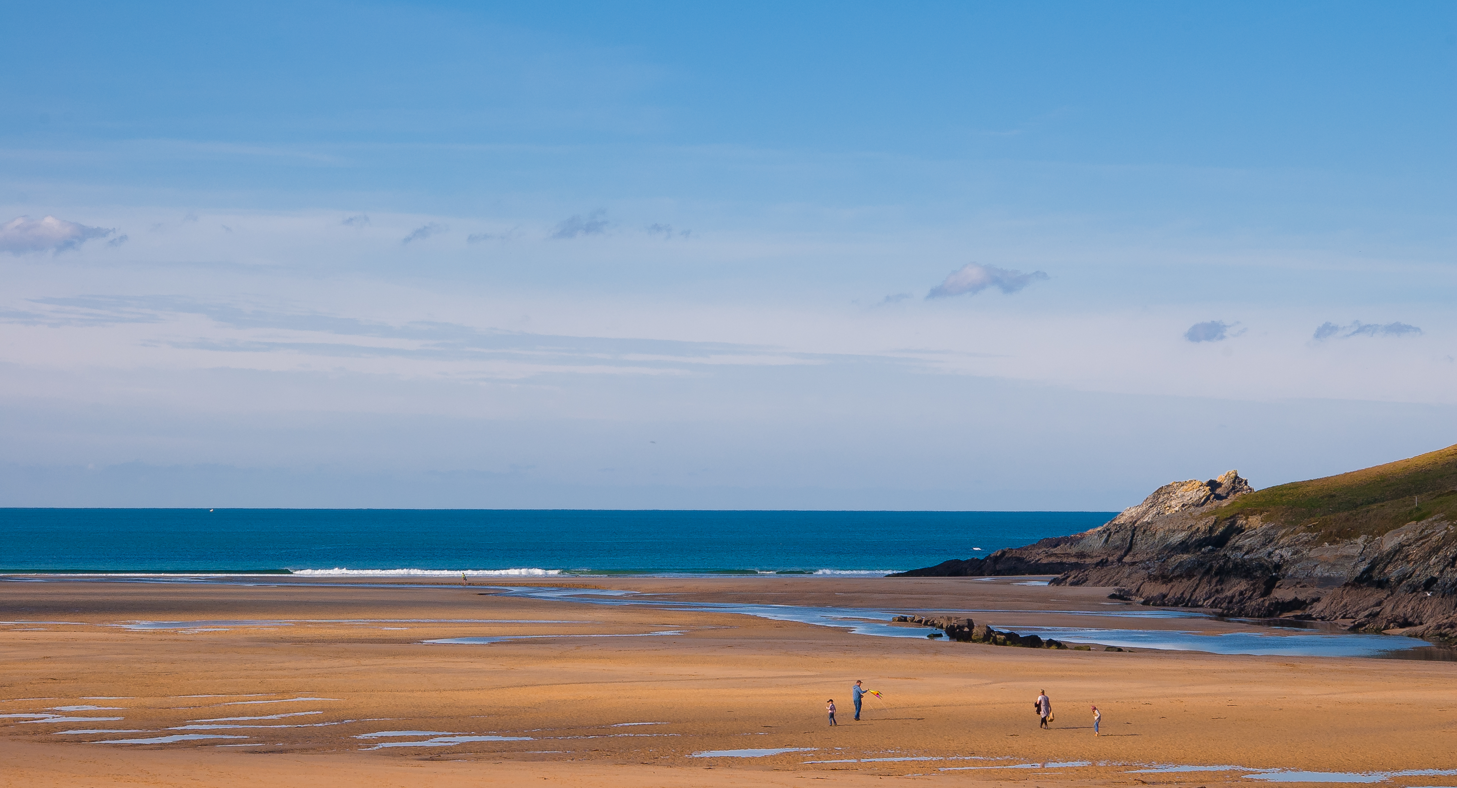 Crantock beach Become a fan on facebook